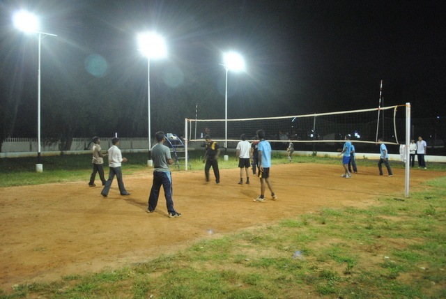 volley ball courts